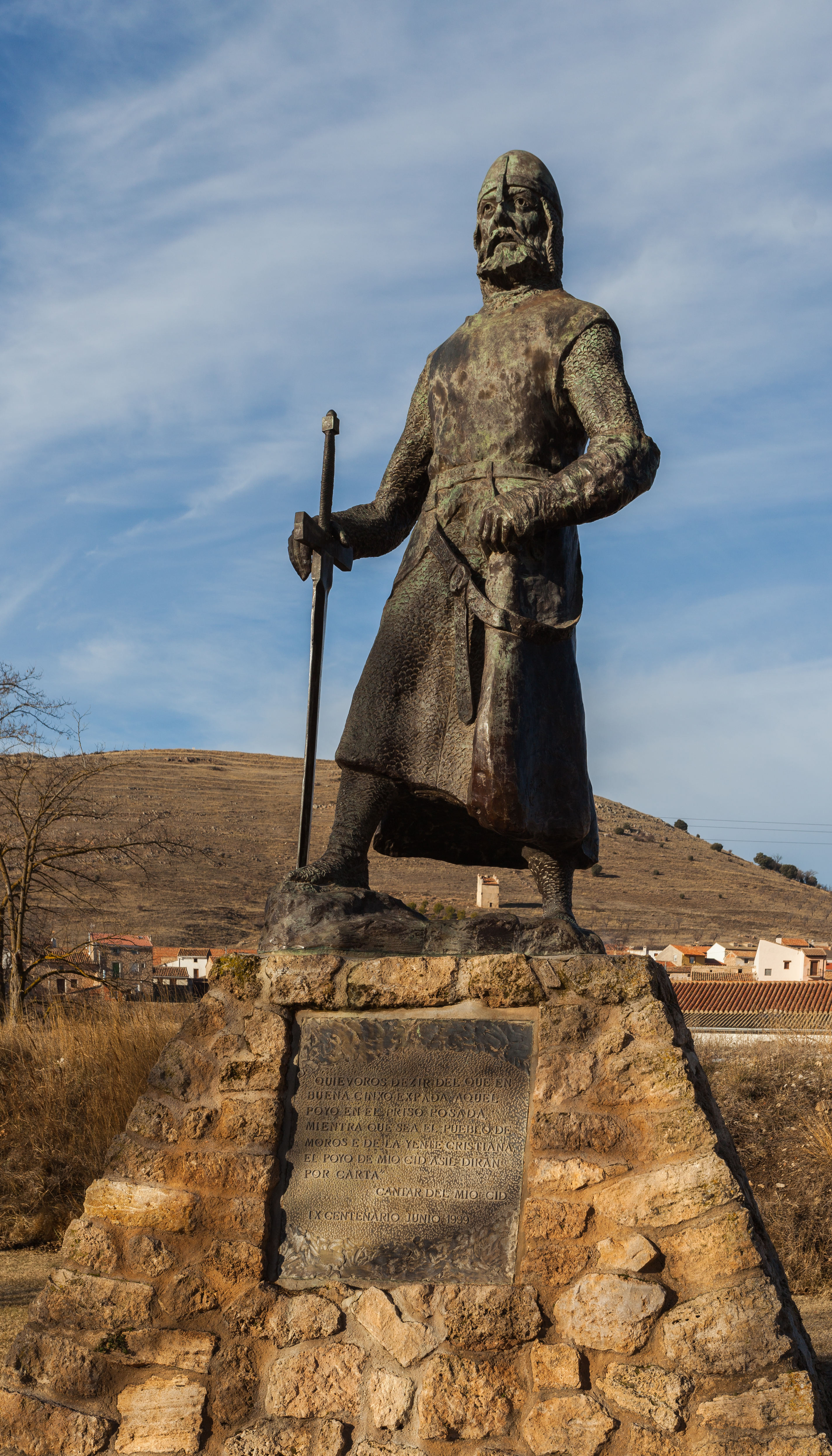 Statue of El Cid, El Poyo del Cid, Teruel, Spain